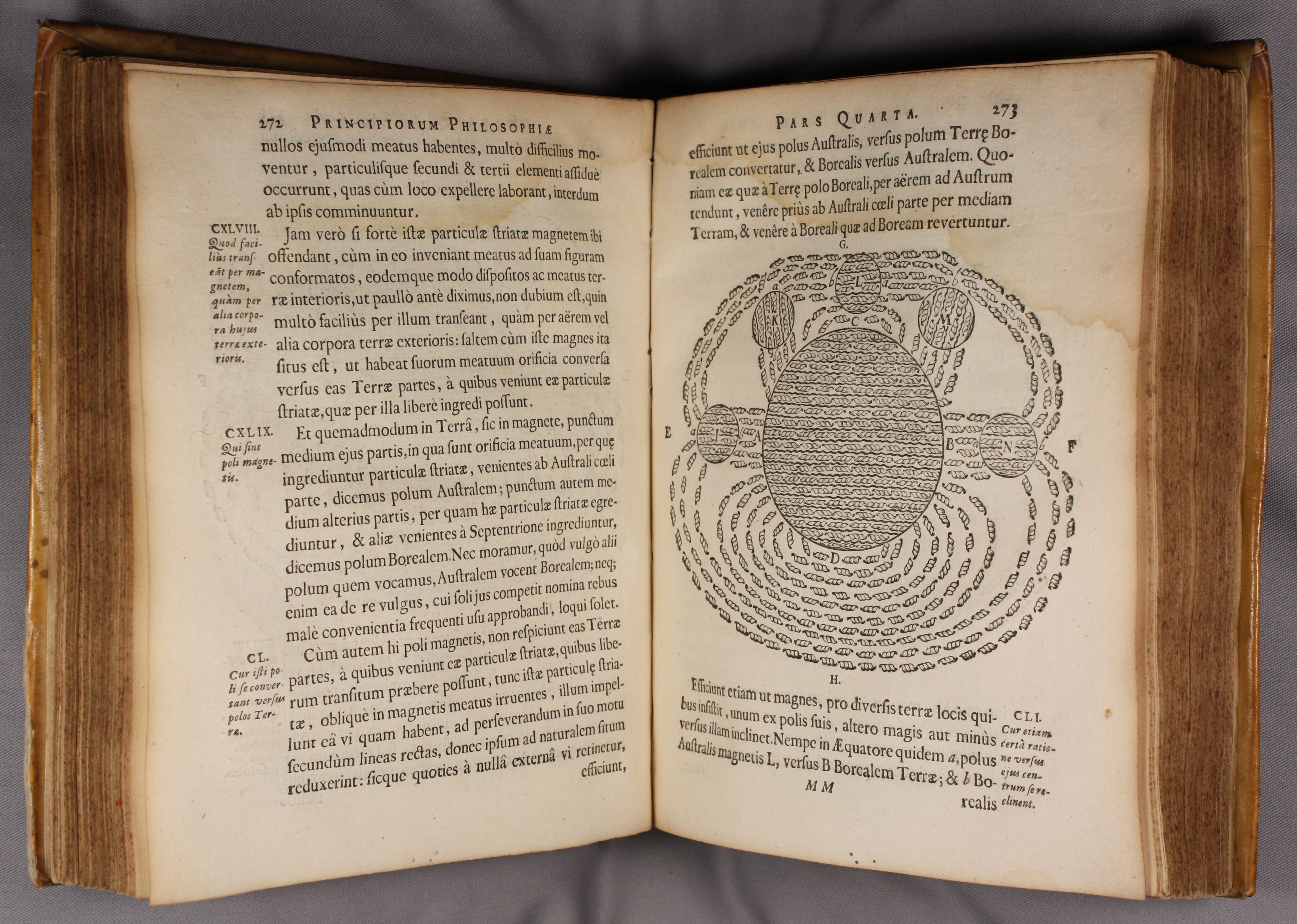 Page 173 of Renati Des Cartes Specimina philosophiae, sev Dissertatio de methodo recte regendae rationis & veritatis in scientiis investigandae: Dioptrice et Meteora. Ex Gallico translata et ab auctore ... emendata. Amstelodami, Apud L. Elzevirium, 1644. Descartes was arguably the most influential natural philosopher of the Scientific Revolution. His work was central to the mechanical turn in science in which contact forces replaced Aristotelian causes as the basis for explanation.